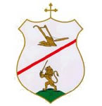 Coat of arms of Zalagyömörő, Hungary